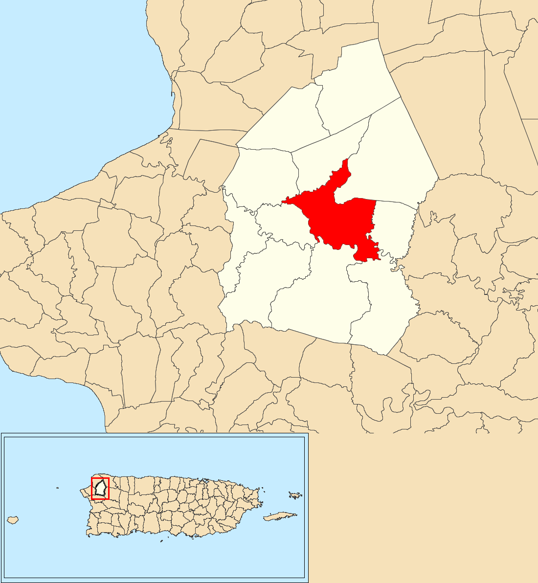 Voladoras, Moca, Puerto Rico locator map